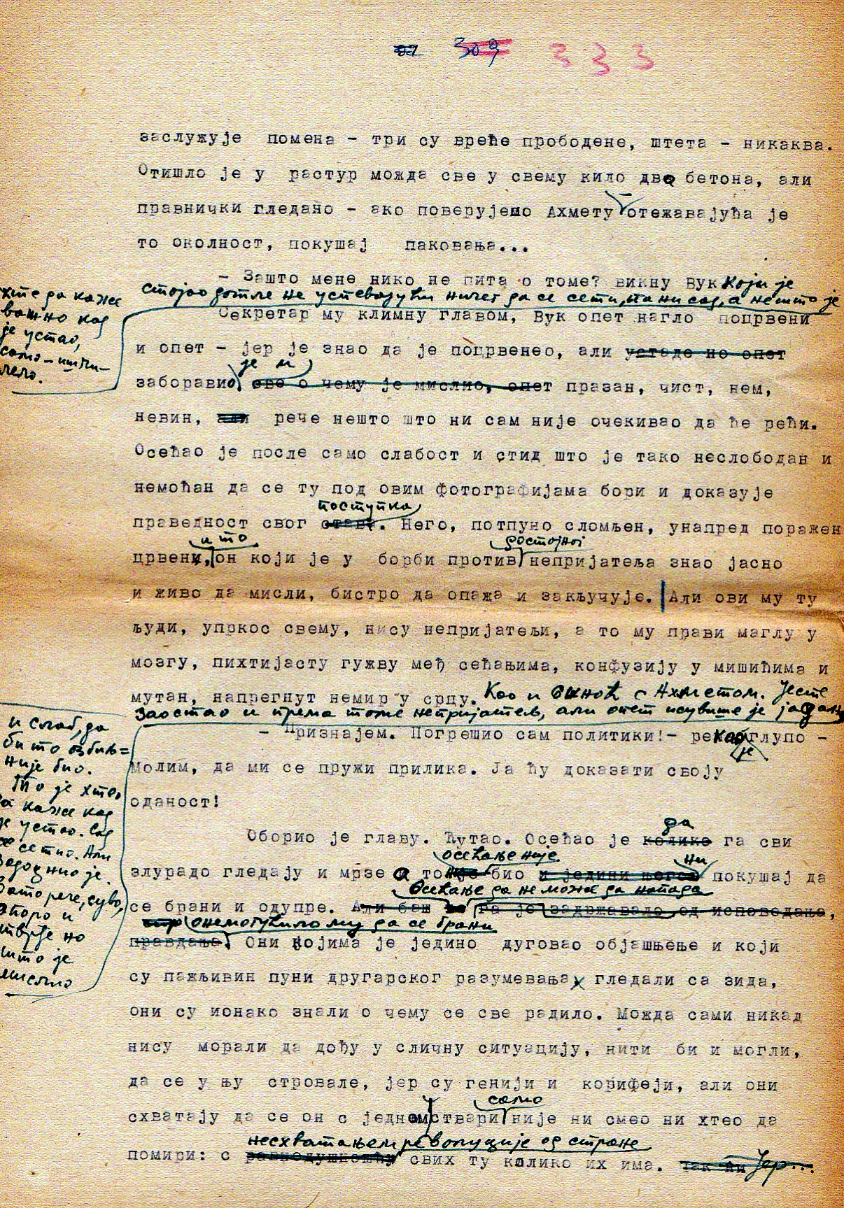 Oskar Davičo's manuscript with notes. It can be found in the Society for Culture, Art and International Cooperation Adligat in Belgrade, Serbia. Српски (ћирилица): Рукопис Оскара Давича, једна од преко 300 страница. Налази се у Удружењу за културу, уметност и међународну сарадњу „Адлигат” у Београду.